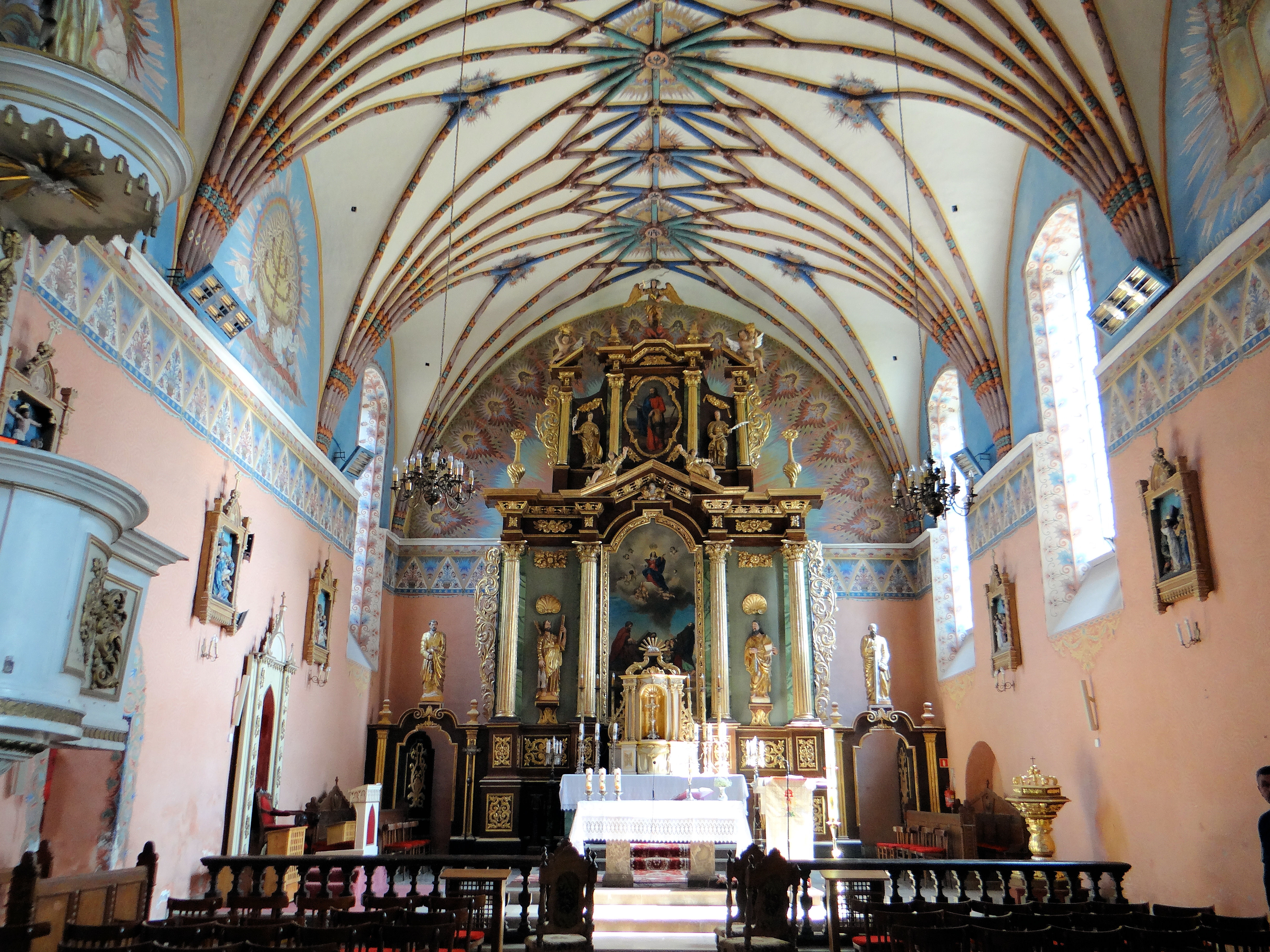 Interior of Saint Bartholomew church in Andrzejewo - Main Altar